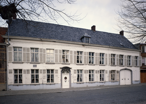 Ref.: PMa_B_263_Oudenaarde; huis Beernaert; photo: Paul M.R.Maeyaert; Ename, Beaucarnestraat; Oudenaarde; Belgium; Oost-Vlaanderen; Cultural heritage; Europeana; Europe|Belgium|Oudenaarde; © Paul M.R. Maeyaert